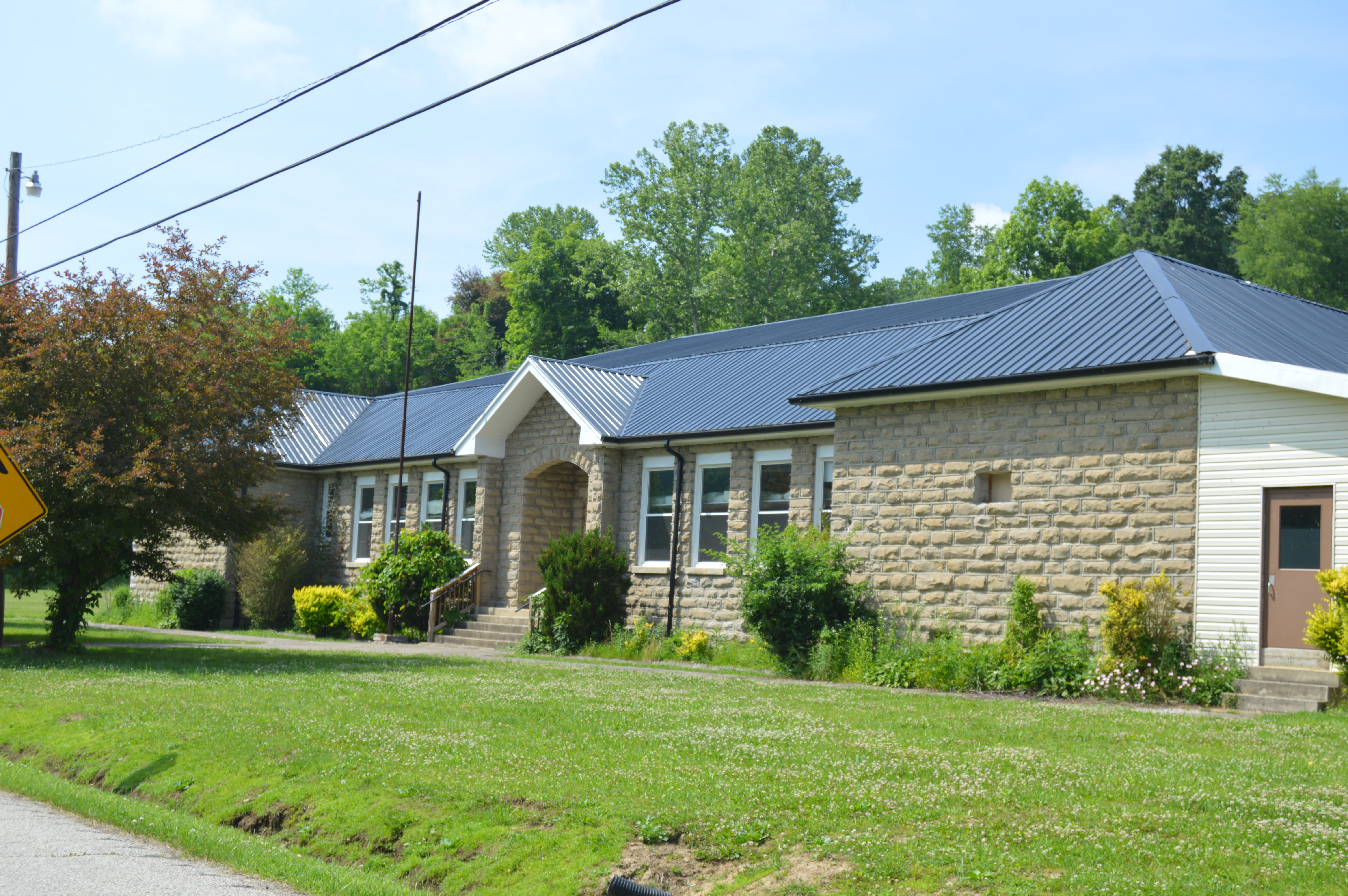 Front of the former Wrigley Elementary School, located on the northern side of Kentucky Route 711 at Wrigley, Kentucky, United States.